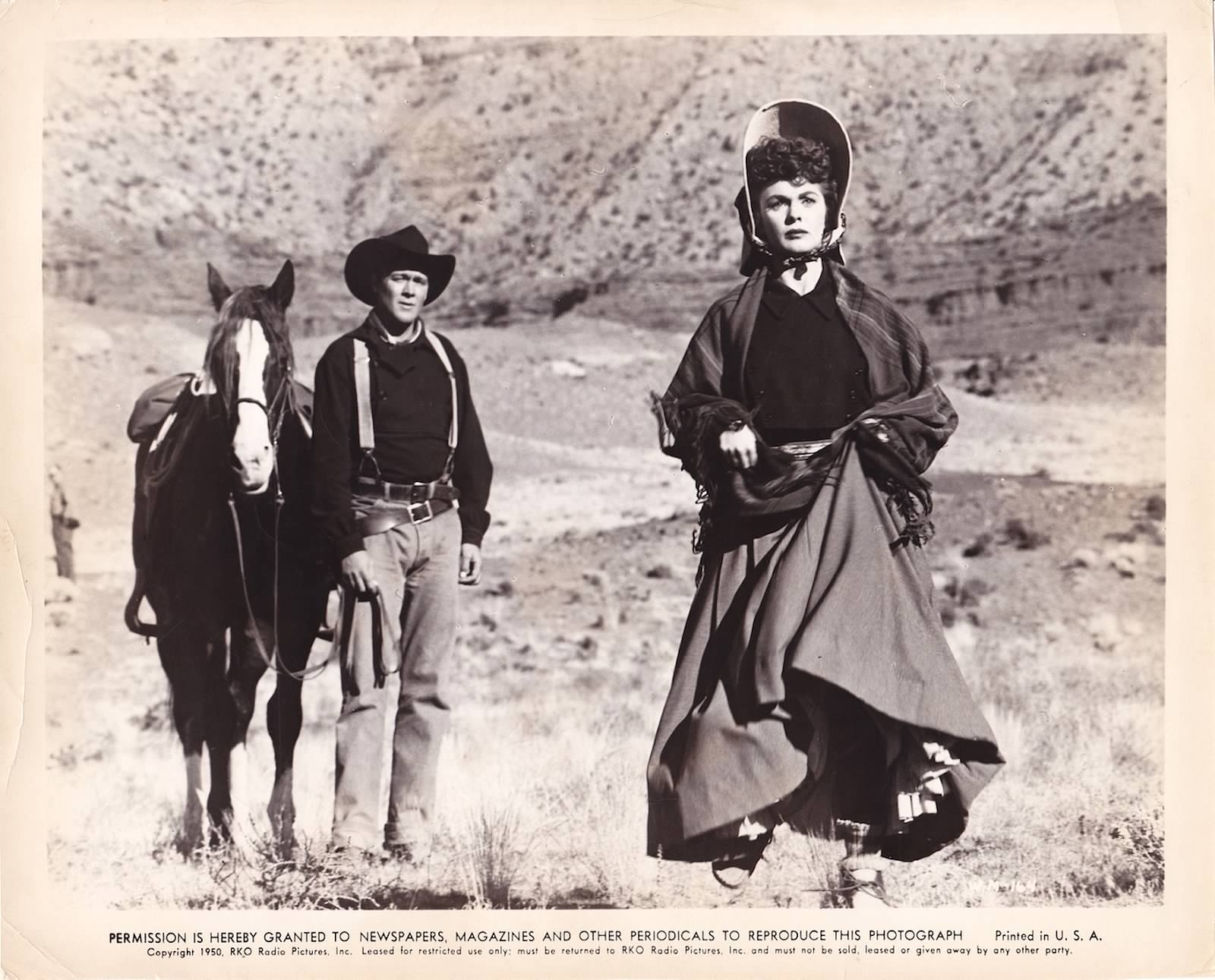 Publicity poster for the film Wagon Master (1950) showing Ben Johnson (as Travis) and Joanne Dru (as Denver). Denver is running away from Travis, who has just proposed to her.